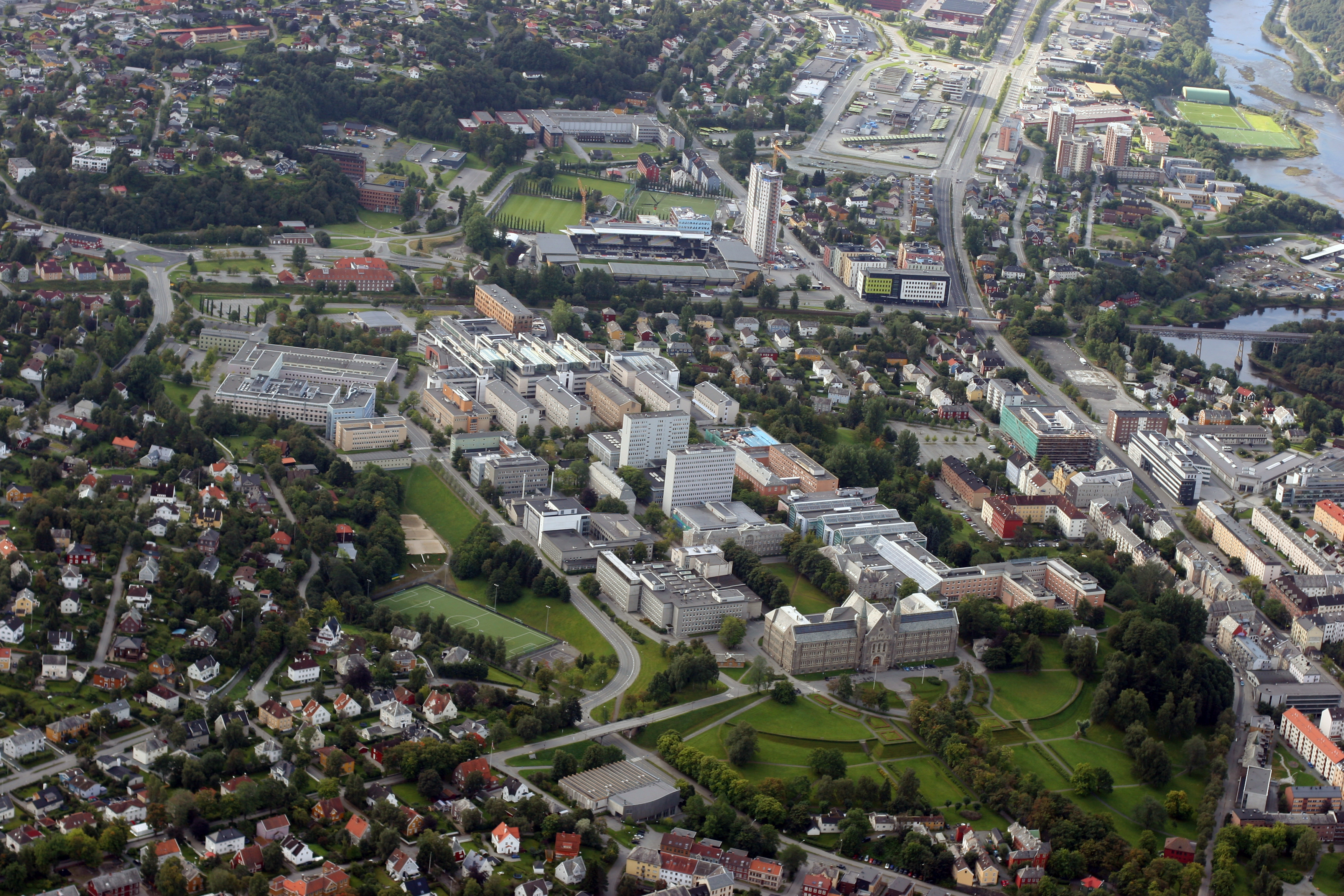 The Norwegian University of Science and Technology (NTNU). The Gløshaugen campus in Trondheim from North East